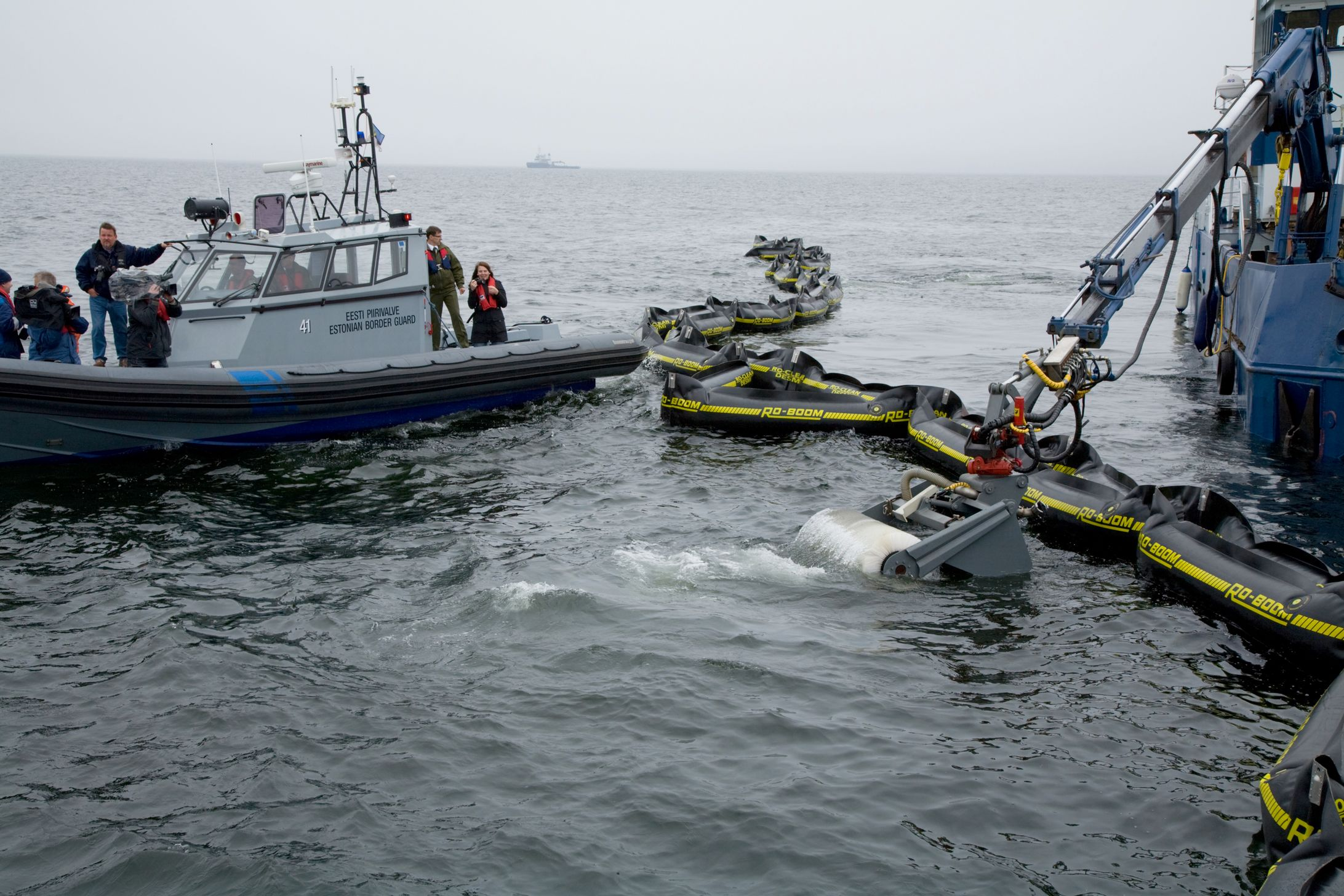 Training exercise Puhas Meri (Clean Sea).